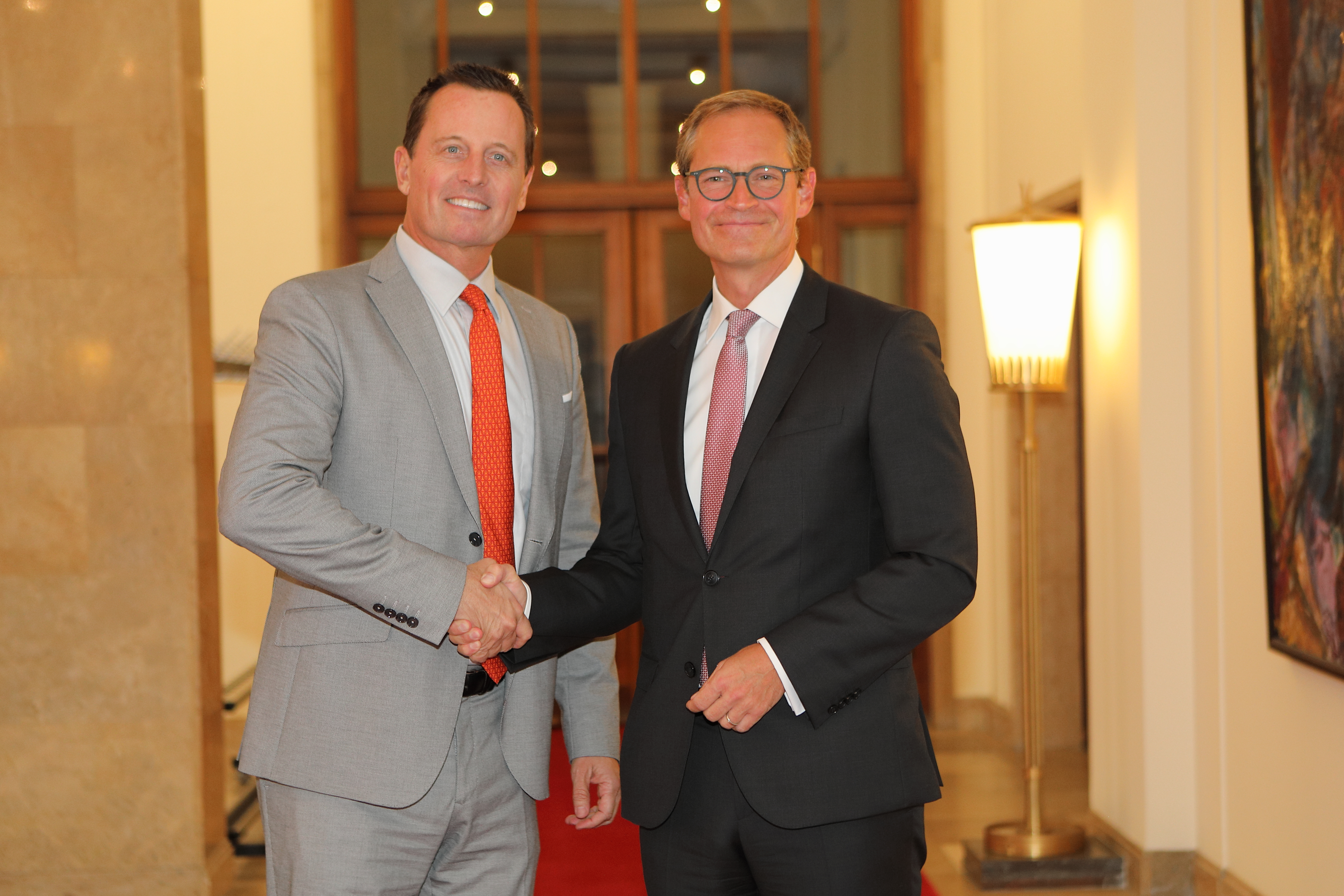 Ambassador RichardGrenell met today with Berlin Governing Mayor Michael Müller